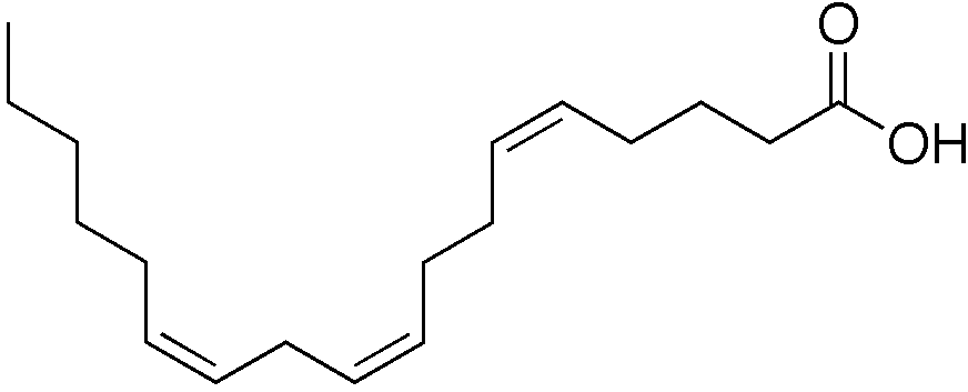 chemical structure of pinolenic acid